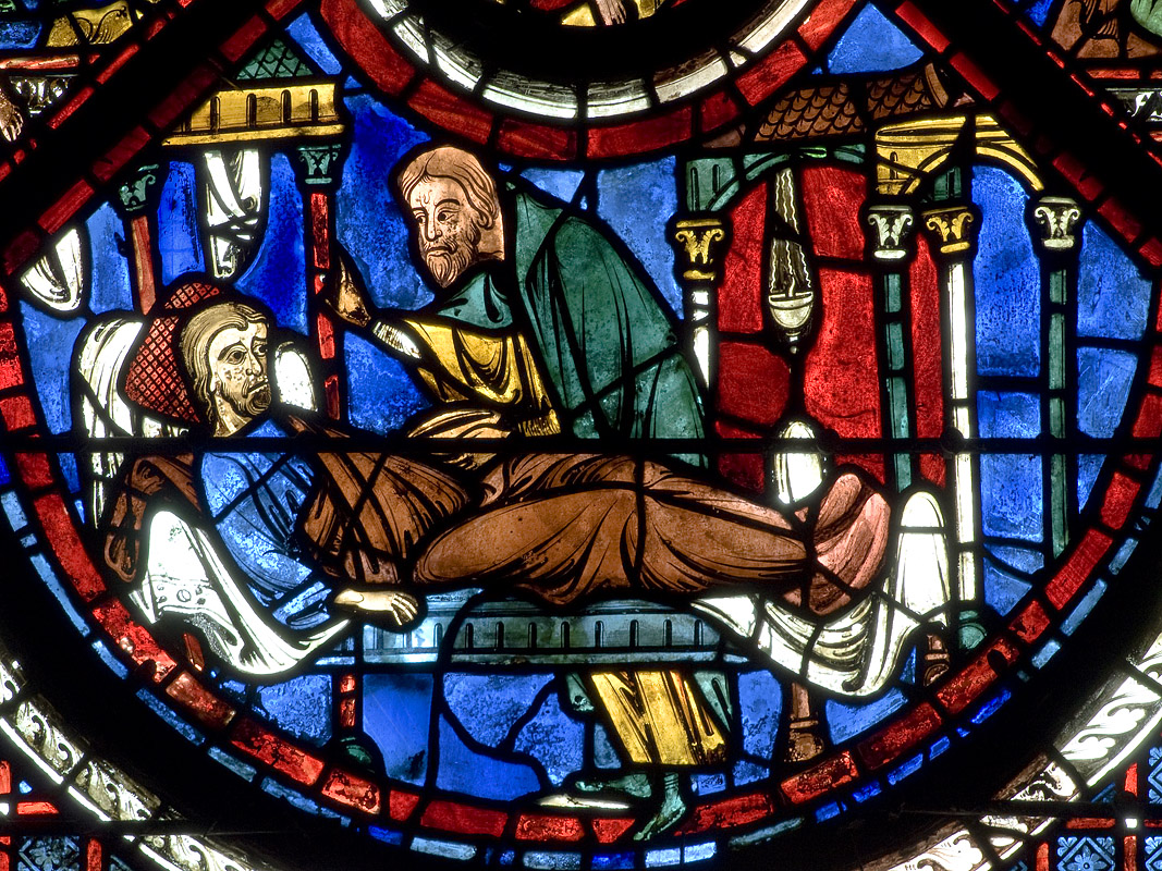 The Good Samaritan caring for the injured man